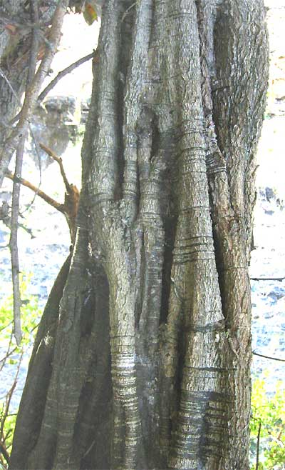 Trunk of Brasil tree (Haematoxylum brasiletto)